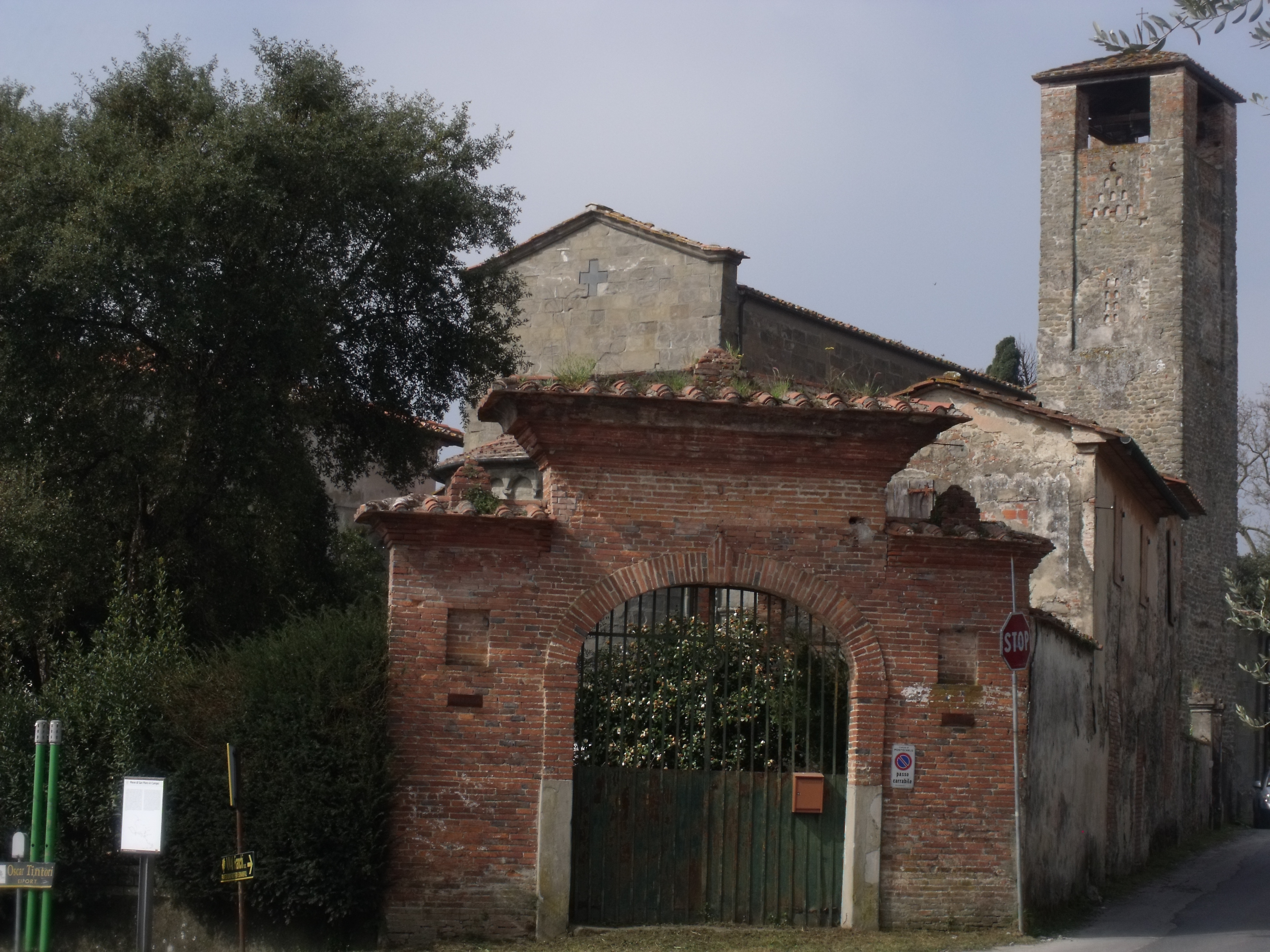 Church San Piero in Campo in Montecarlo, Province of Lucca, Tuscany, Italy